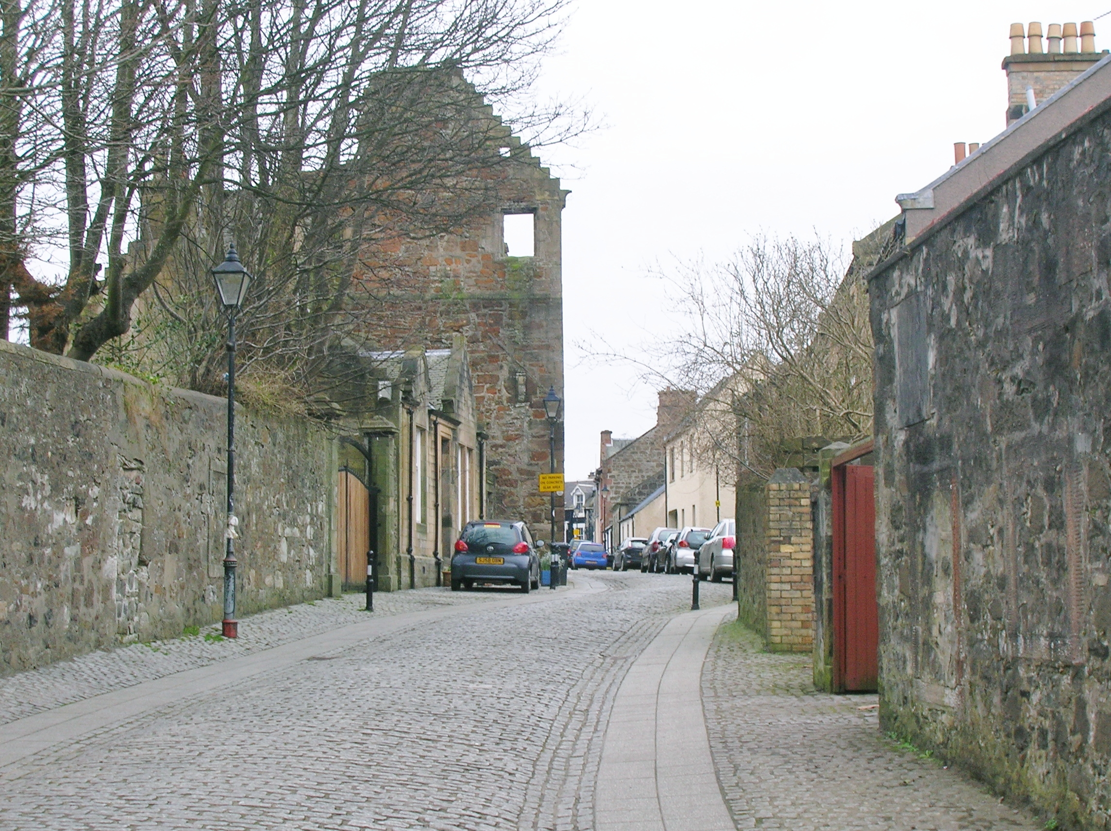 Seagate Castle and street from the west. Irvine, North Ayrshire, Scotland.